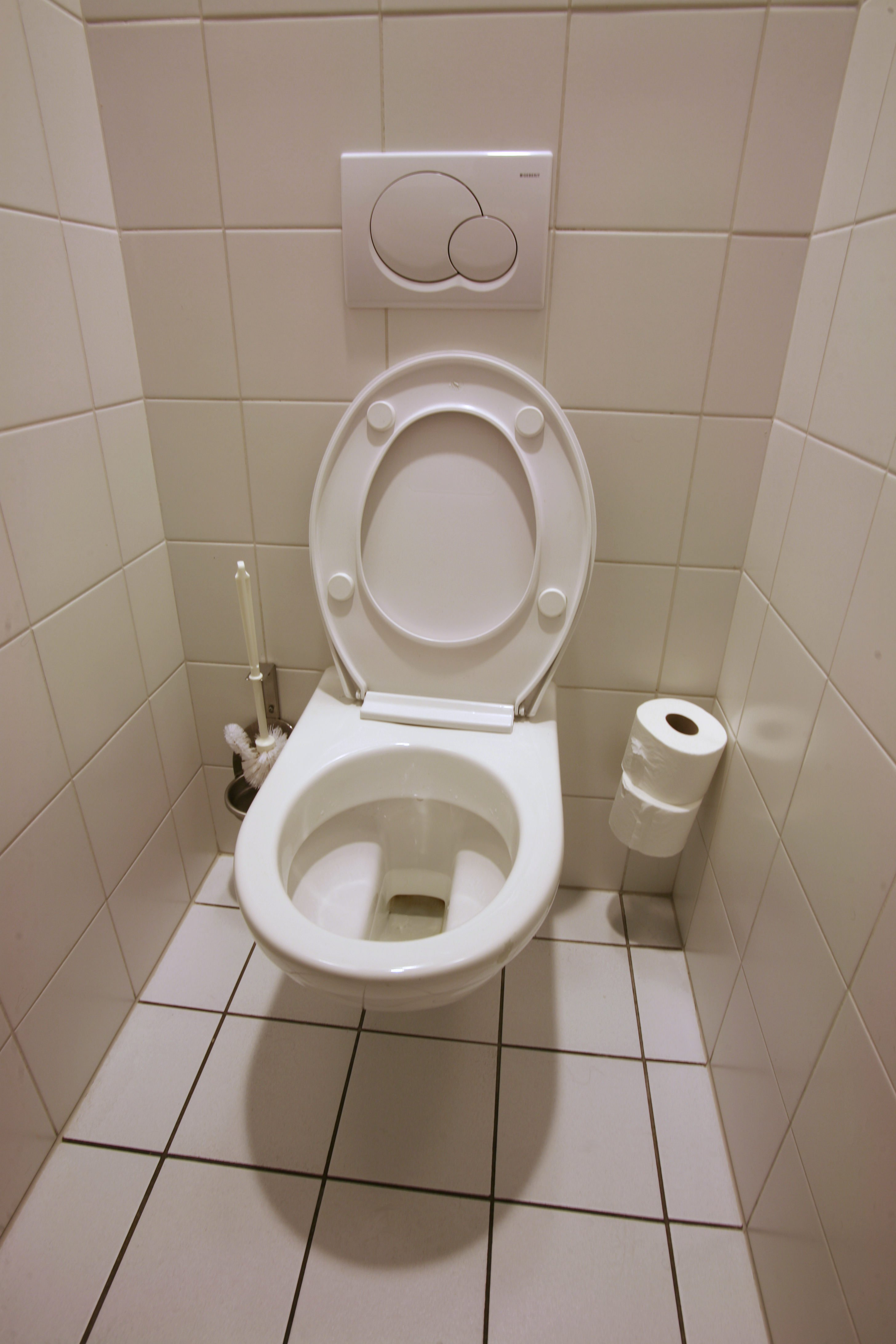 Toilets